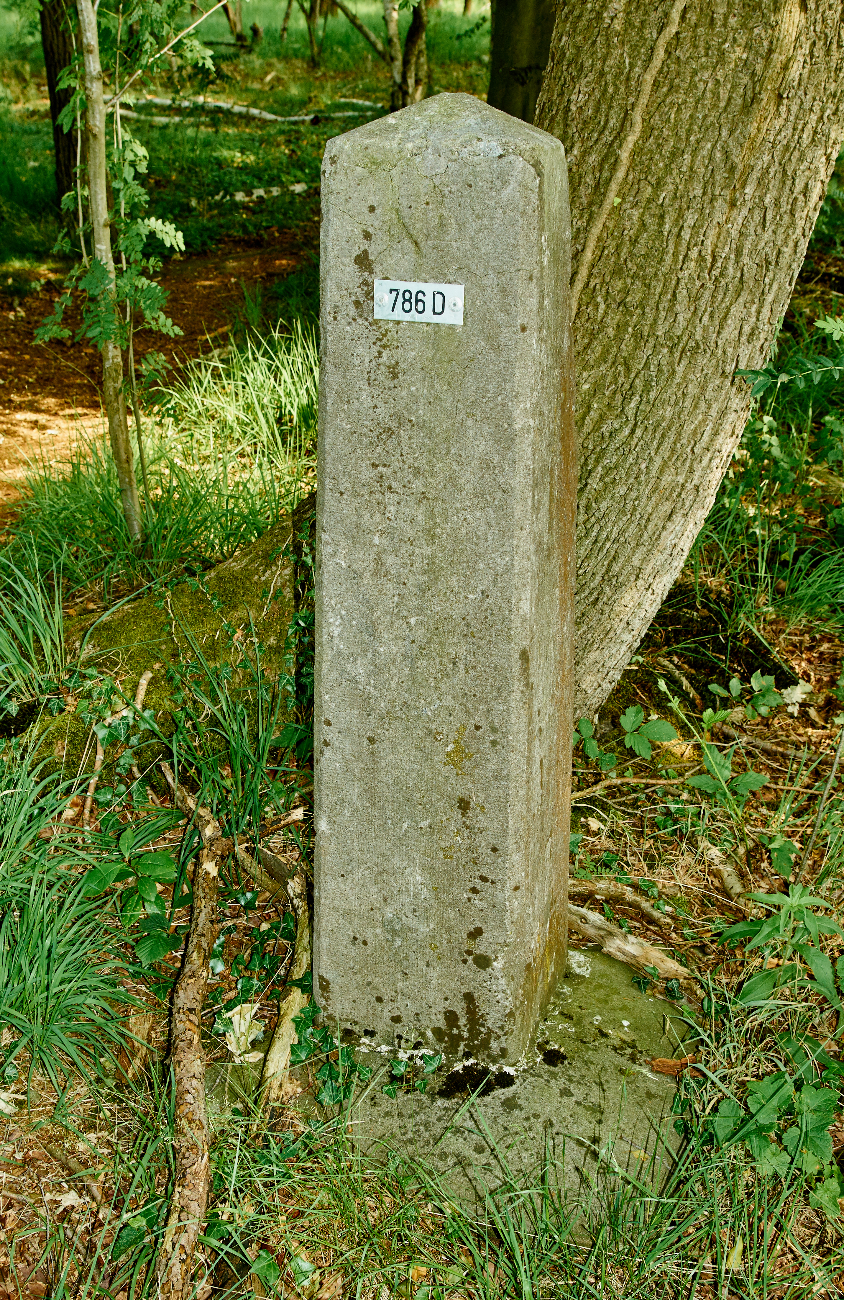 The boundary stone No. 786D between North Rhine-Westphalia, Germany, and Gelderland, Netherlands, 19th century.